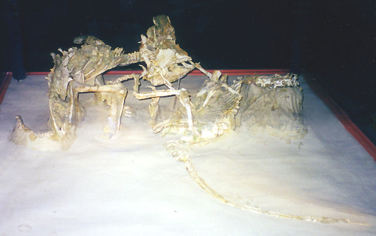 GIN 100/25. Edited version of previous file Image:Fightingdinosamnh1.jpg. Taken June 12, 2006. Modified by User:Firsfron on behalf of Wikipedia:WikiProject Dinosaurs